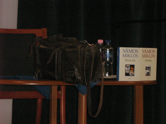 New books by Miklós Vámos.